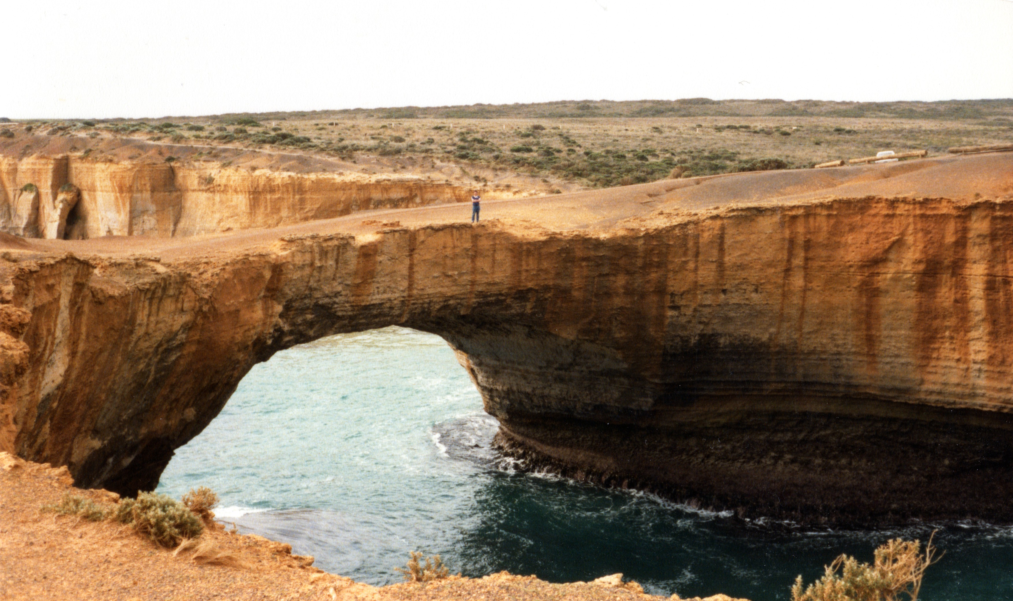 London Bridge Port Campbell National Park, Australia - prior to its collapse.